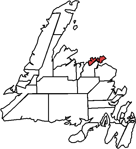 Map based on work by Earl Andrew, from maps used in 2007 elections